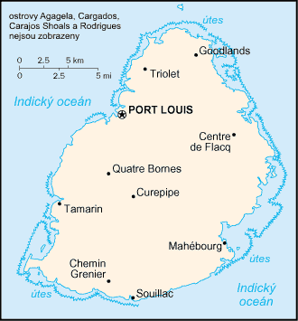 Map of Mauritius with Czech description.